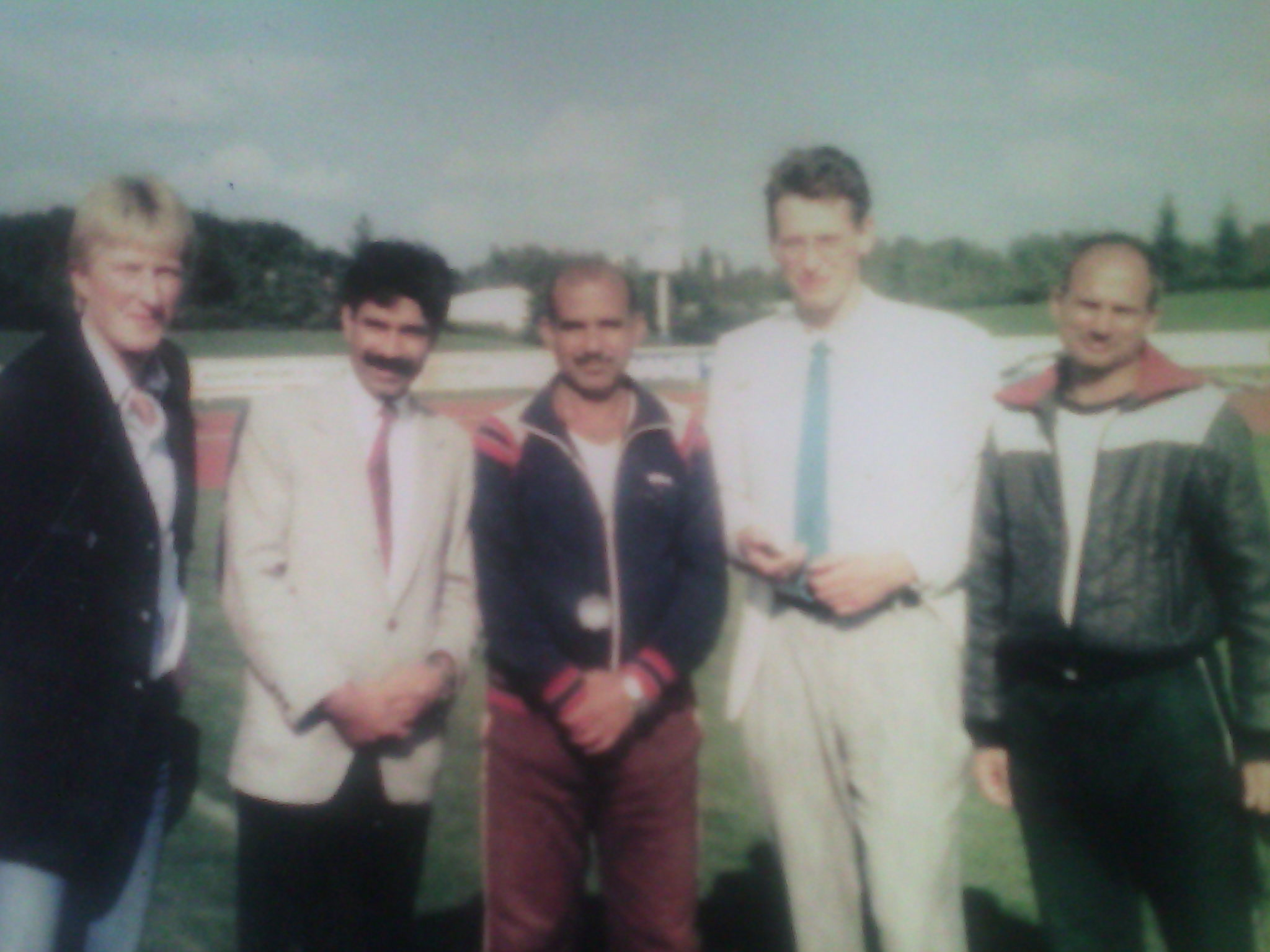 Abdul Khaliq (athlete)